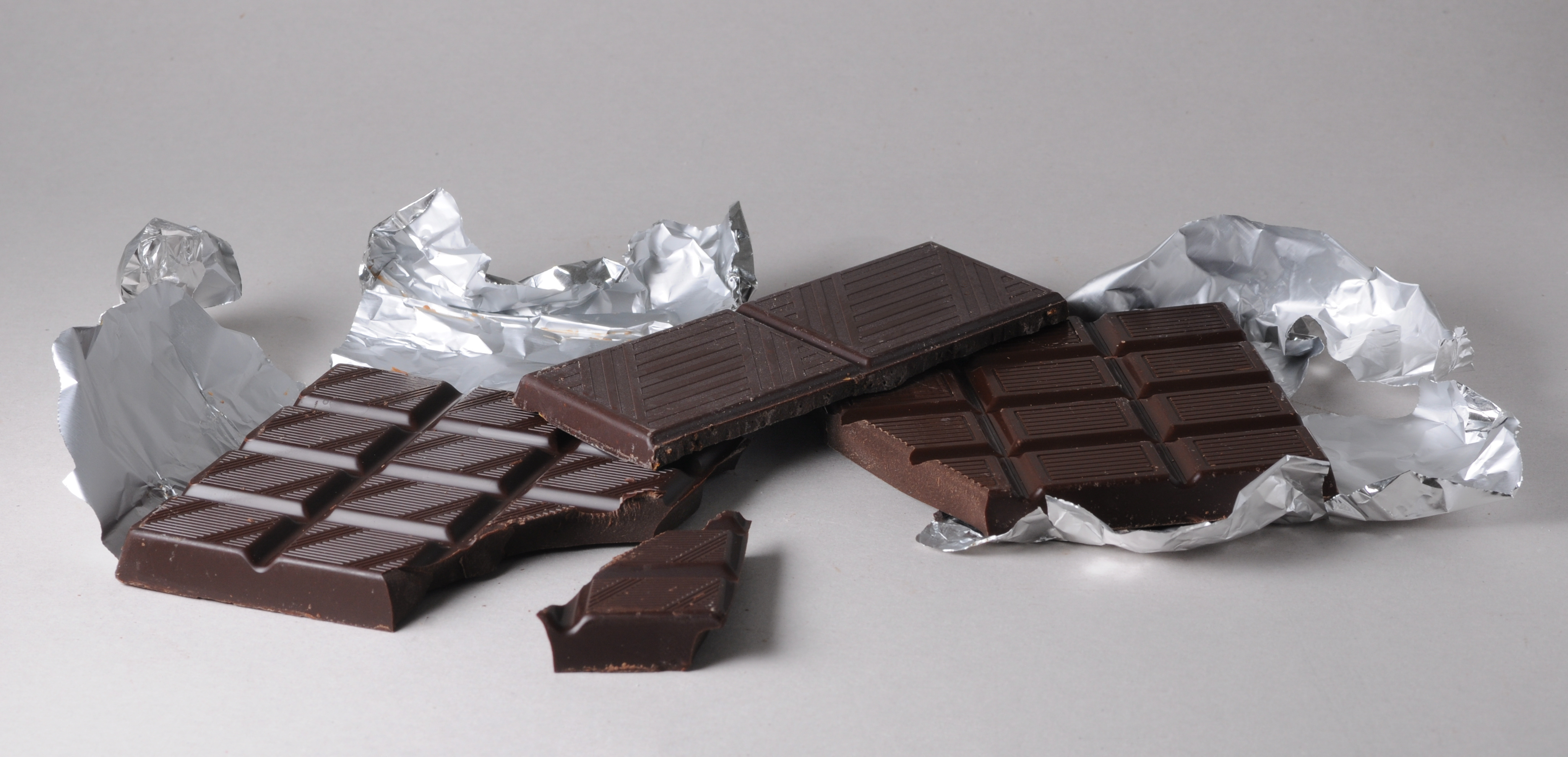 Bars of black Swiss Chocolate. From left to right: About 75% cacao; With chili; Normal black chocolate.